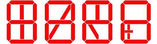 variation of 9 segment display. From left: Classic 1970s, Russian display, Newport iSeries, (General Instrument (LMP) MAN6780) with a "+"